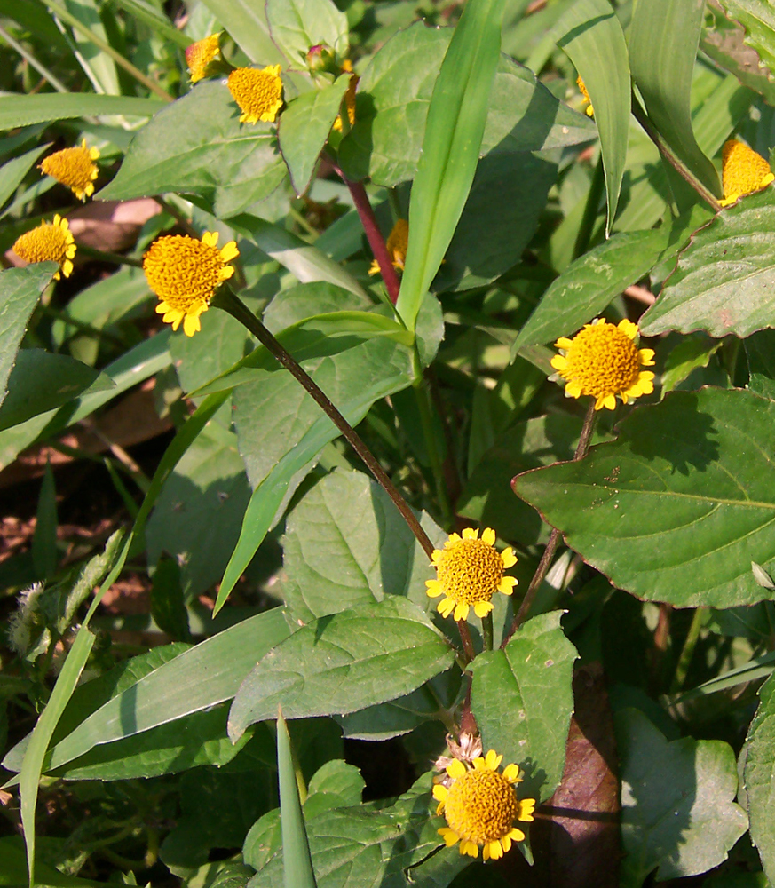 Acmella paniculata herb. Darmaga, Bogor, West Java.